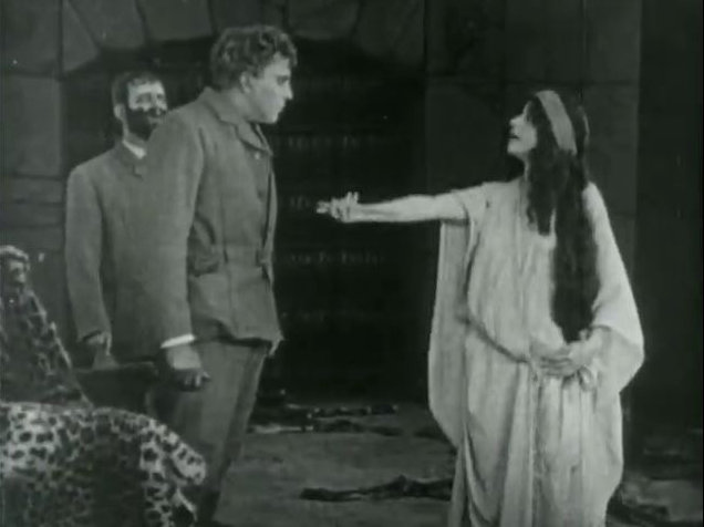 Marguerite Snow in the title role in She (1911)